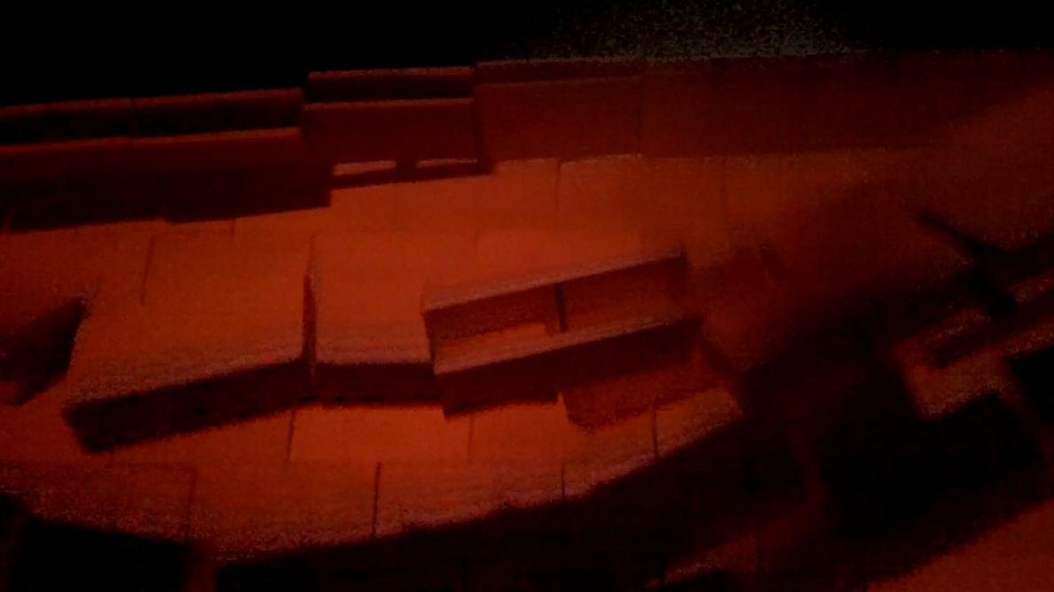 I took this photo from the 2nd row, stage left, using a Kodak Playsport camera.